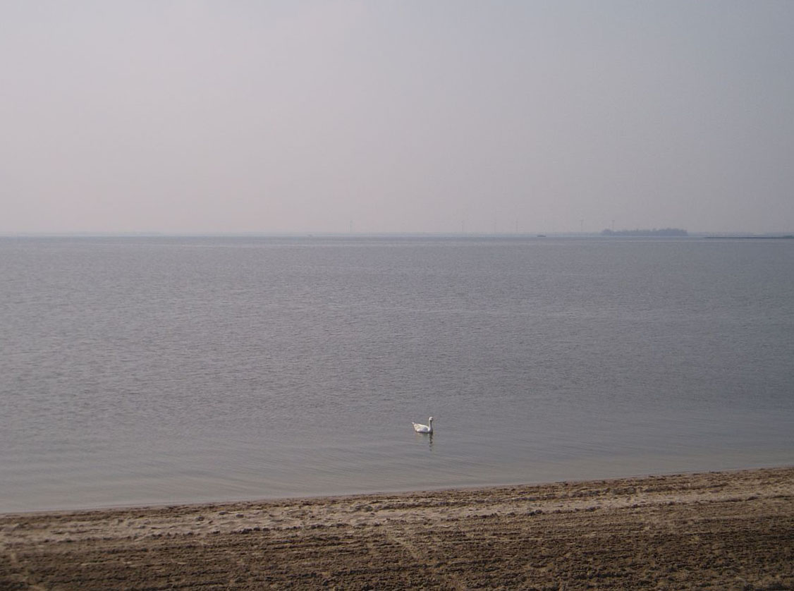 Wolderwijd seen from Harderwijk/Dolfinarium coast